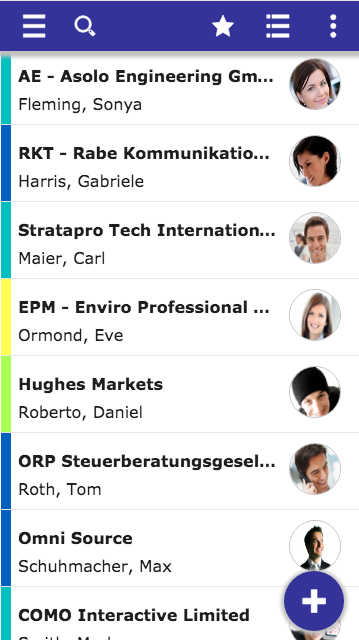 Screenshot of EGroupware (Open Source Collaboration Software)